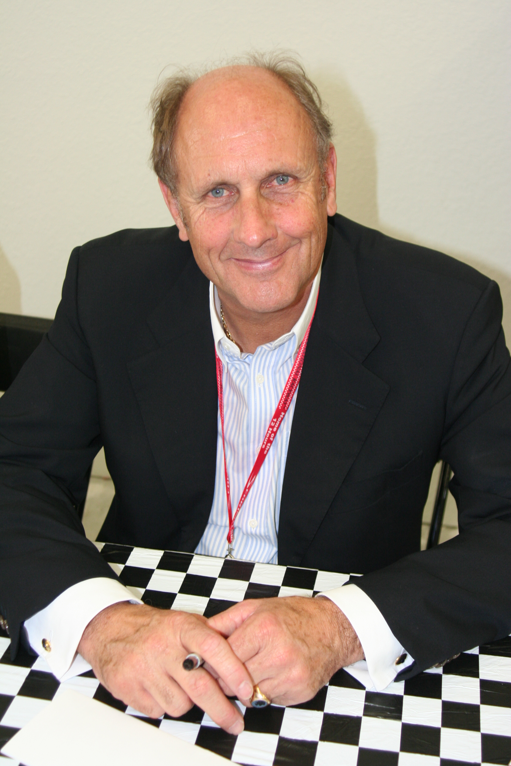 Former Formula One and sports car racing driver Hans-Joachim Stuck. Shot by The Daredevil at the 2008 12 Hours of Sebring event